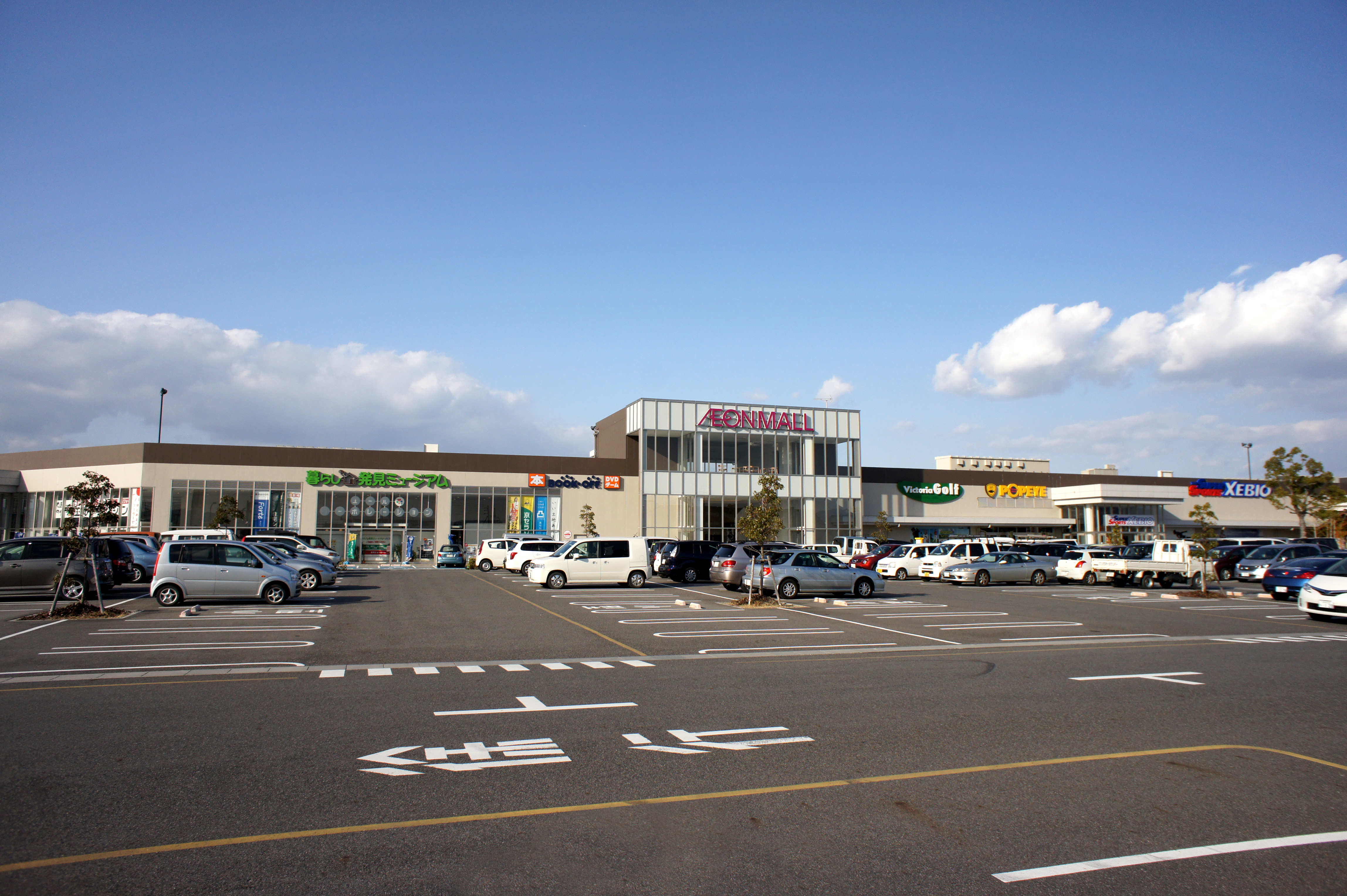 AEON MALL Kusatsu, 300 Niihamacho Kusatsu-City Shiga JAPAN.